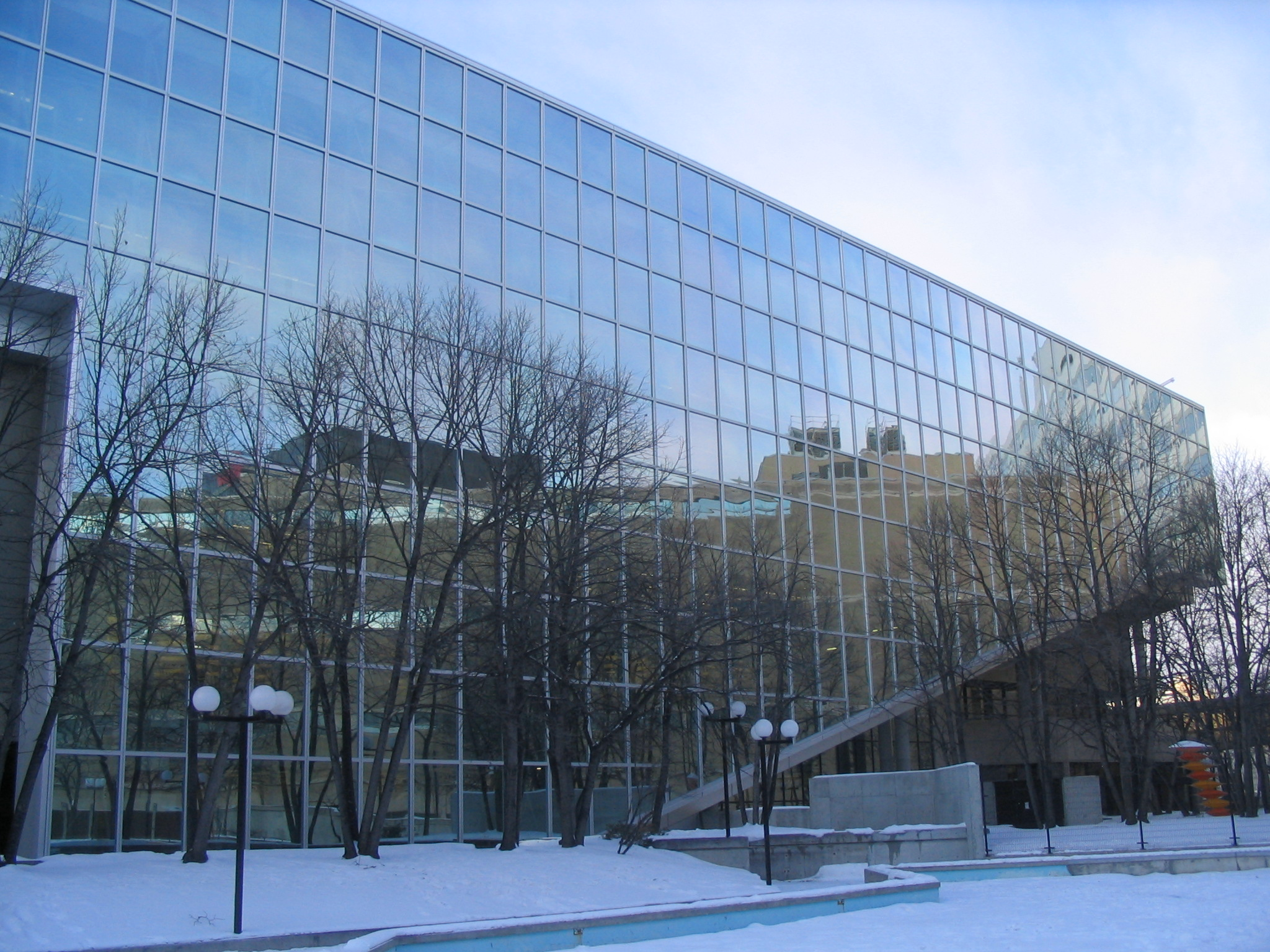 South elevation of the Millennium Library in Winnipeg, MB, Canada.